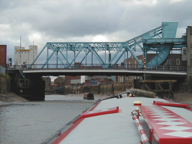 A165 Bridge, Hull, East Riding of Yorkshire, England.This type of bridge has no pivot to support its weight, but rolls back on a curved extension of its steelwork.